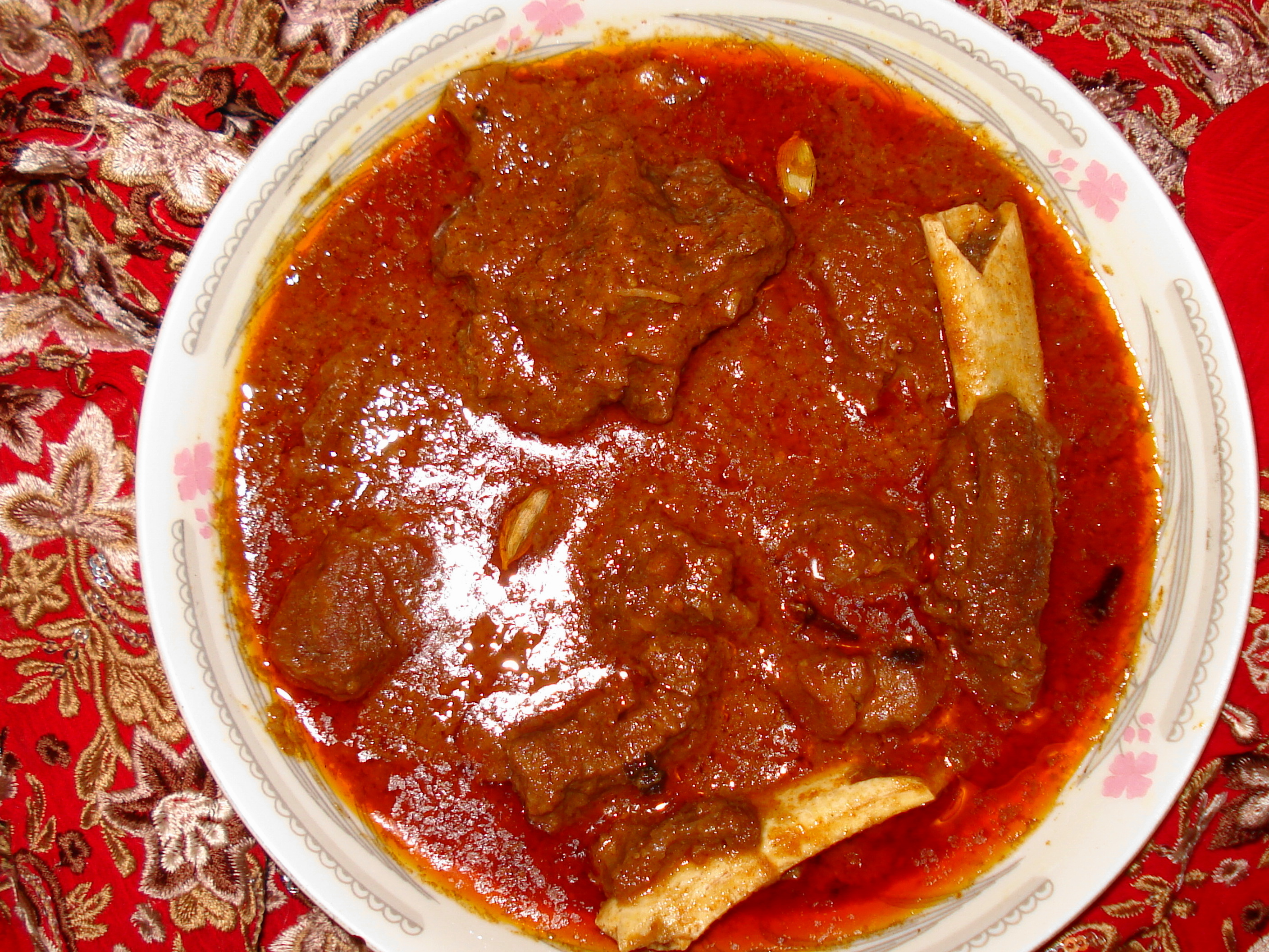 Korma/Qorma is a popular dish of Pakistan